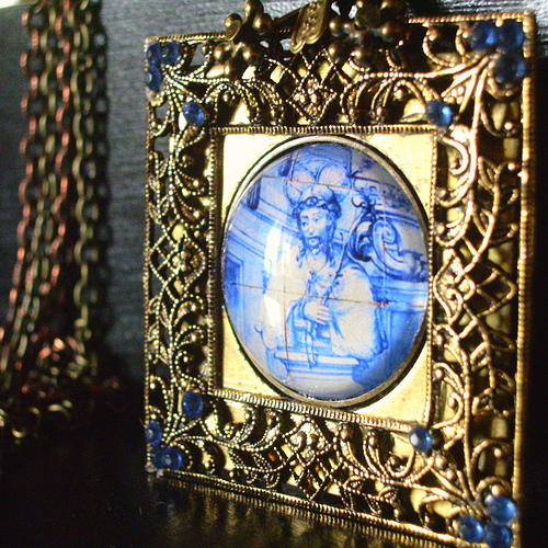 This Santo Cristo image is a detail of a grand tiled wall depicting the story of Santo Cristo, taken in the Convento de Esperança (Convent of Hope) here in Ponta Delada, Azores. see this link for His story...